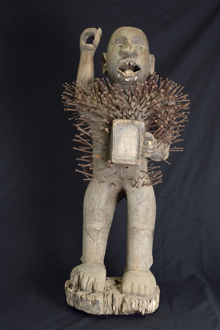 Congolese fetish of Nkisi Nkondi, a female power figure, with nails, collection BNK, Royal Tribal Art